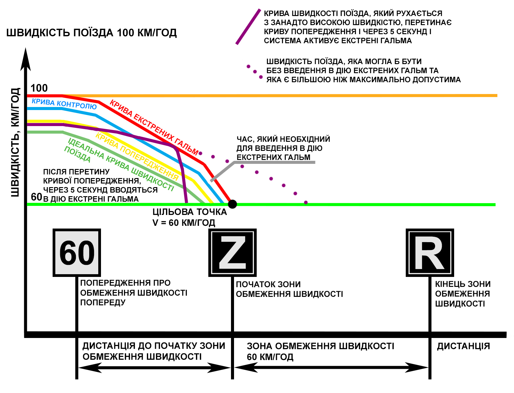 Speeding KVB 2